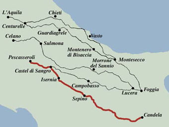 Pescasseroli - Candela sheep-track